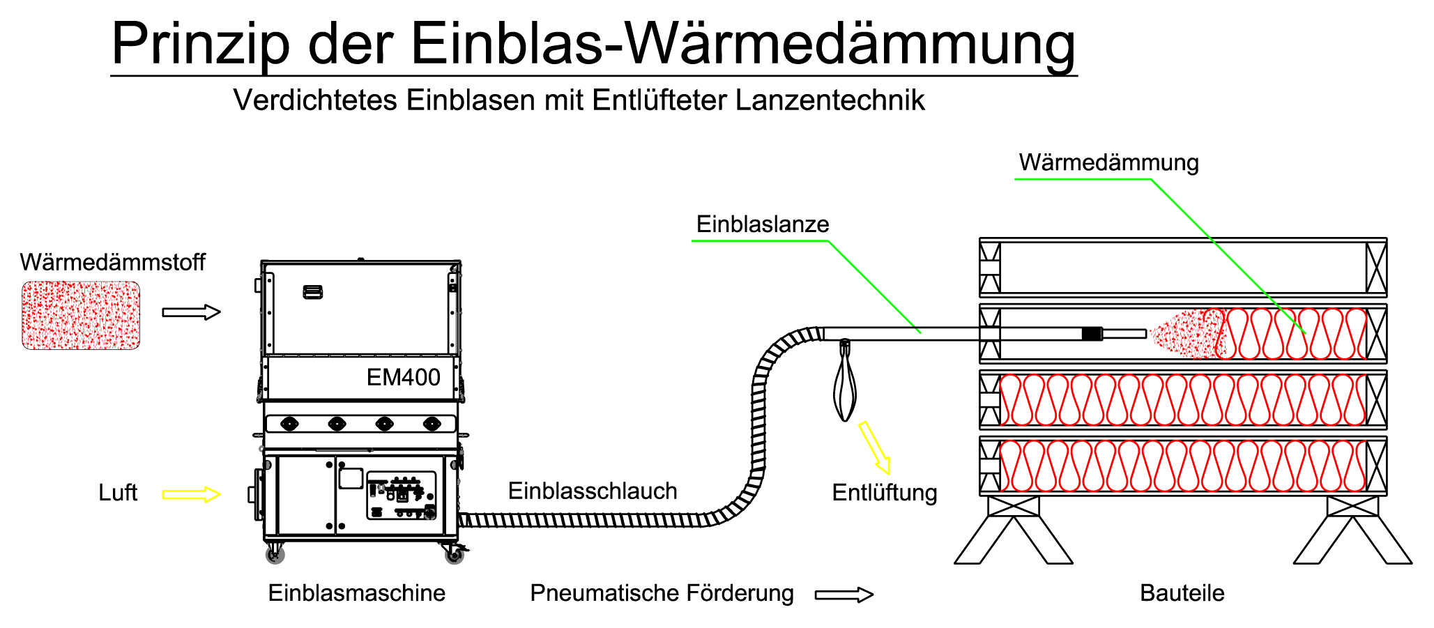 blowing lance, blowing technique, insulation blowing method